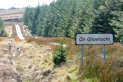 Cropped version of image of sign and road at Coill Leitir Creamha Rua (Lettercraffroe Wood)